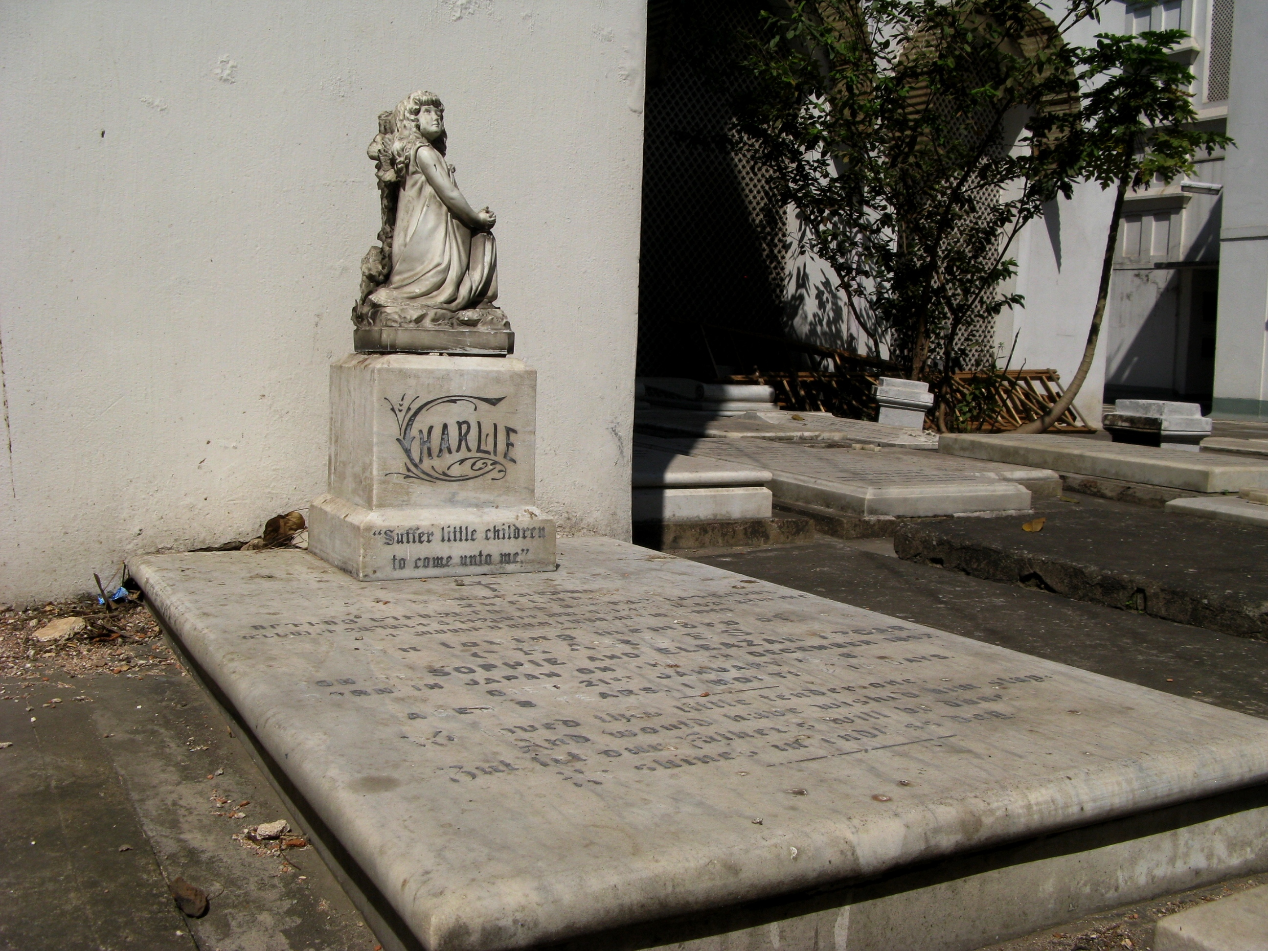 The Armenian Church of Calcutta (Kolkata) built in 1724 has the distinction of being the oldest church in Calcutta (Kolkata)..The Armenian Church of Calcutta (Kolkata) is surrounded by a graveyard contain a large number of graves.